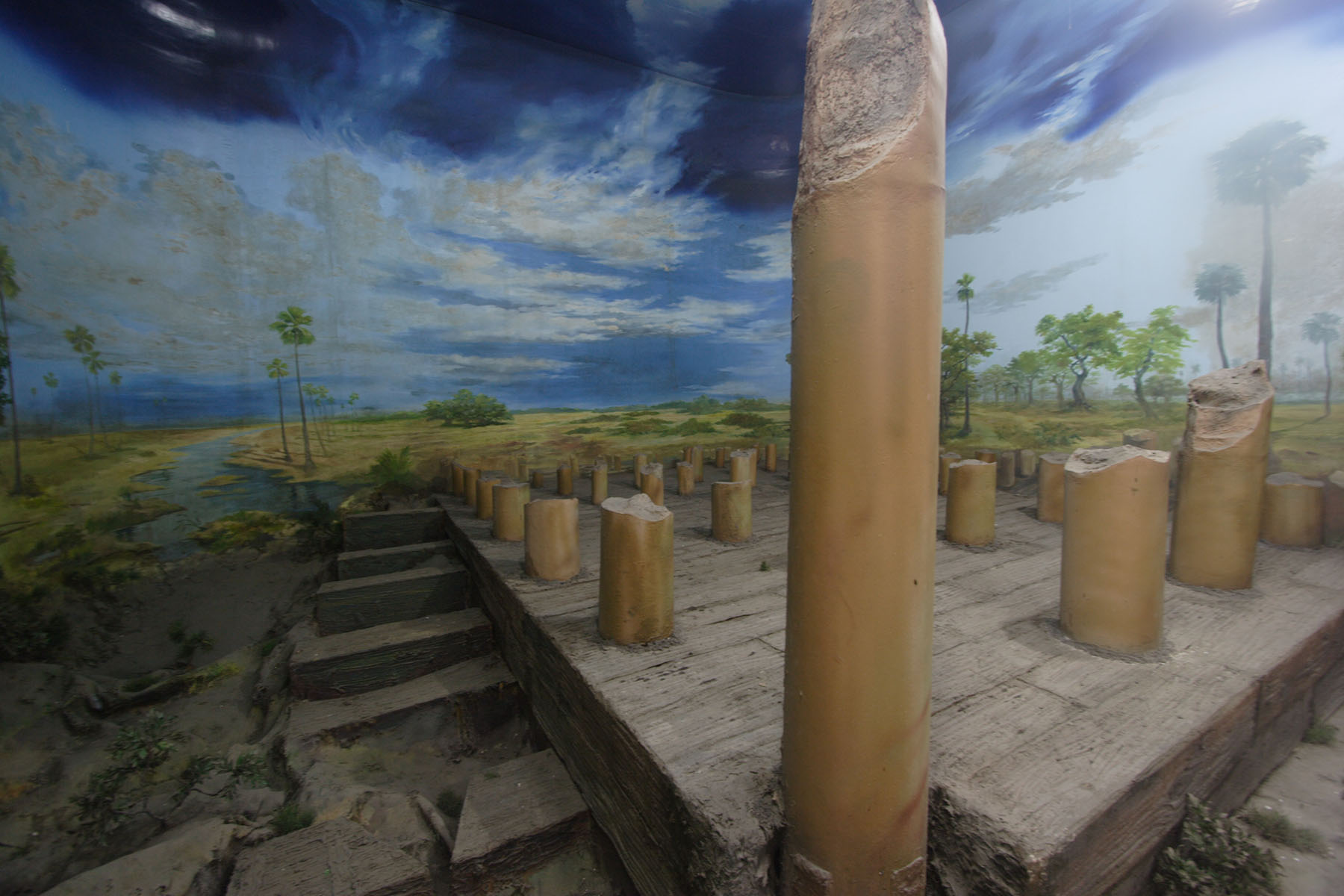 Patna Museum colonnade